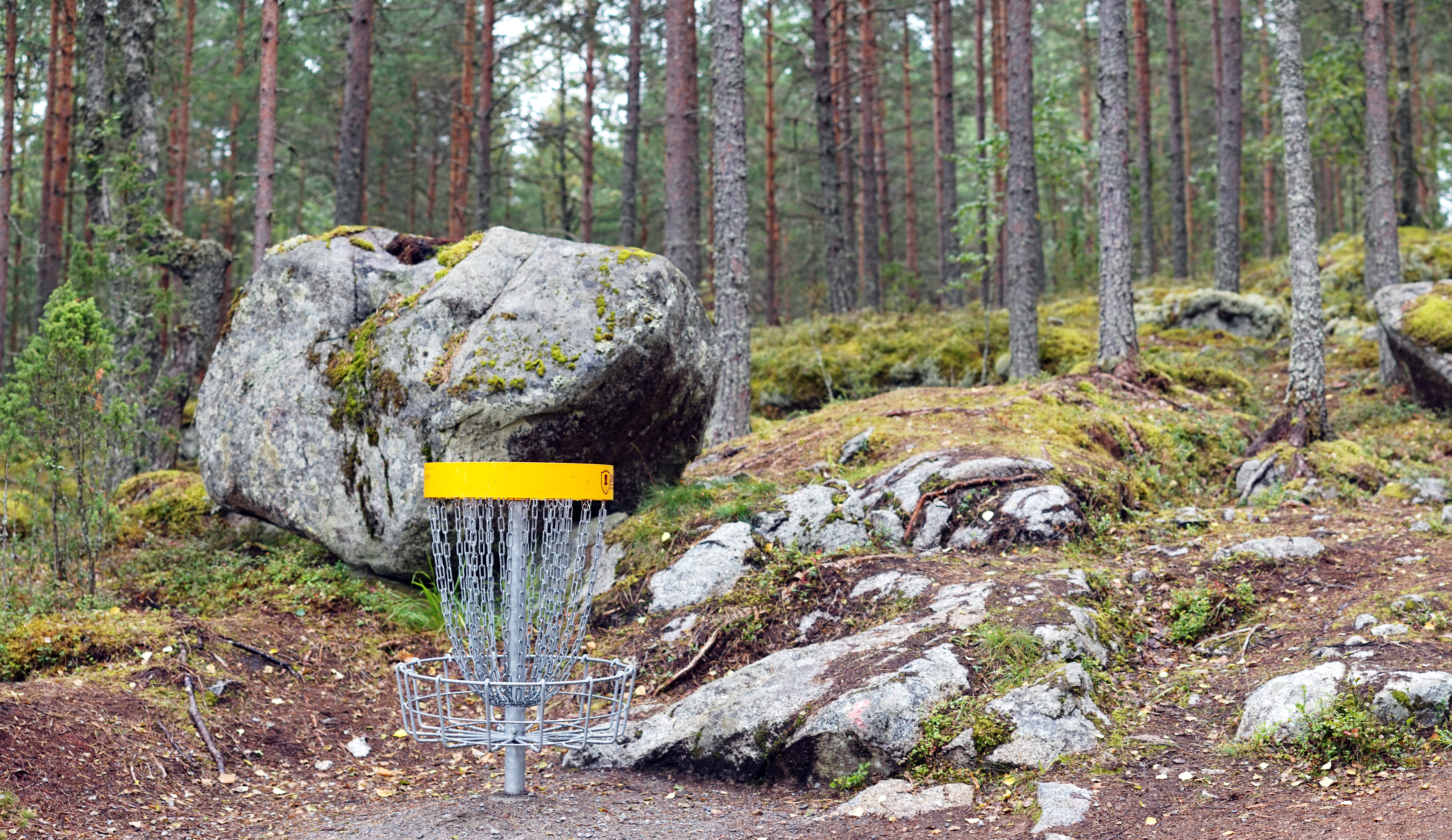 DiscGolfPark in Padasjoki.